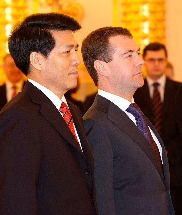 THE KREMLIN, MOSCOW. Presentation of foreign ambassadors’ letters of credence. With Ambassador of the People’s Republic of China Li Hui.